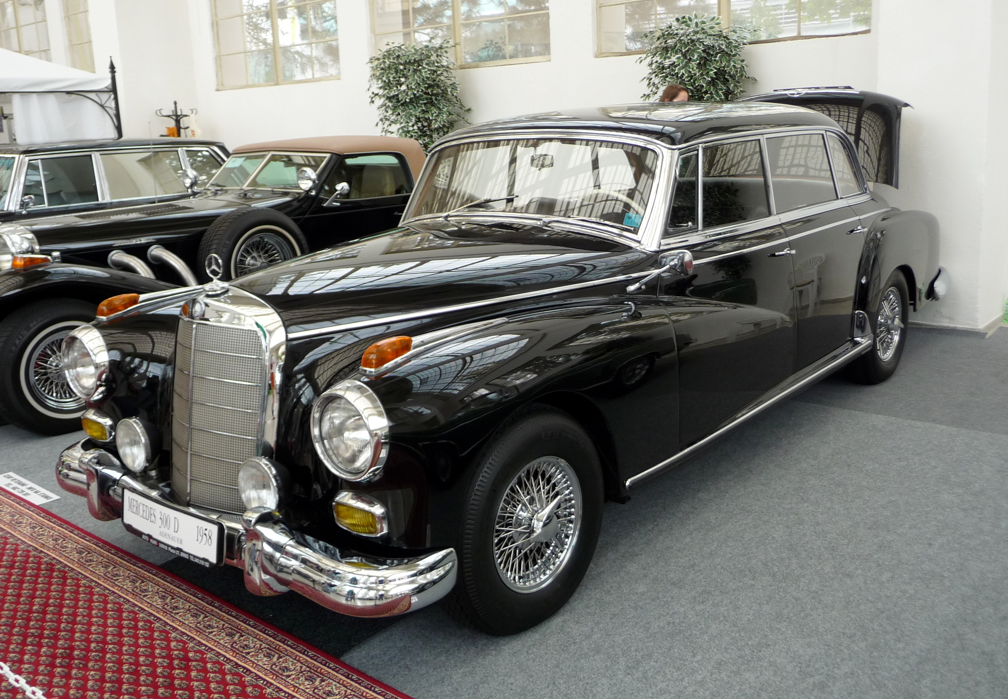 Mercedes 300 D Adenauer, year 1958, Classic Show Brno 2011, The Brno Exhibition Grounds -10 -5 -3 -2 ◄ ► +2 +3 +5 +10